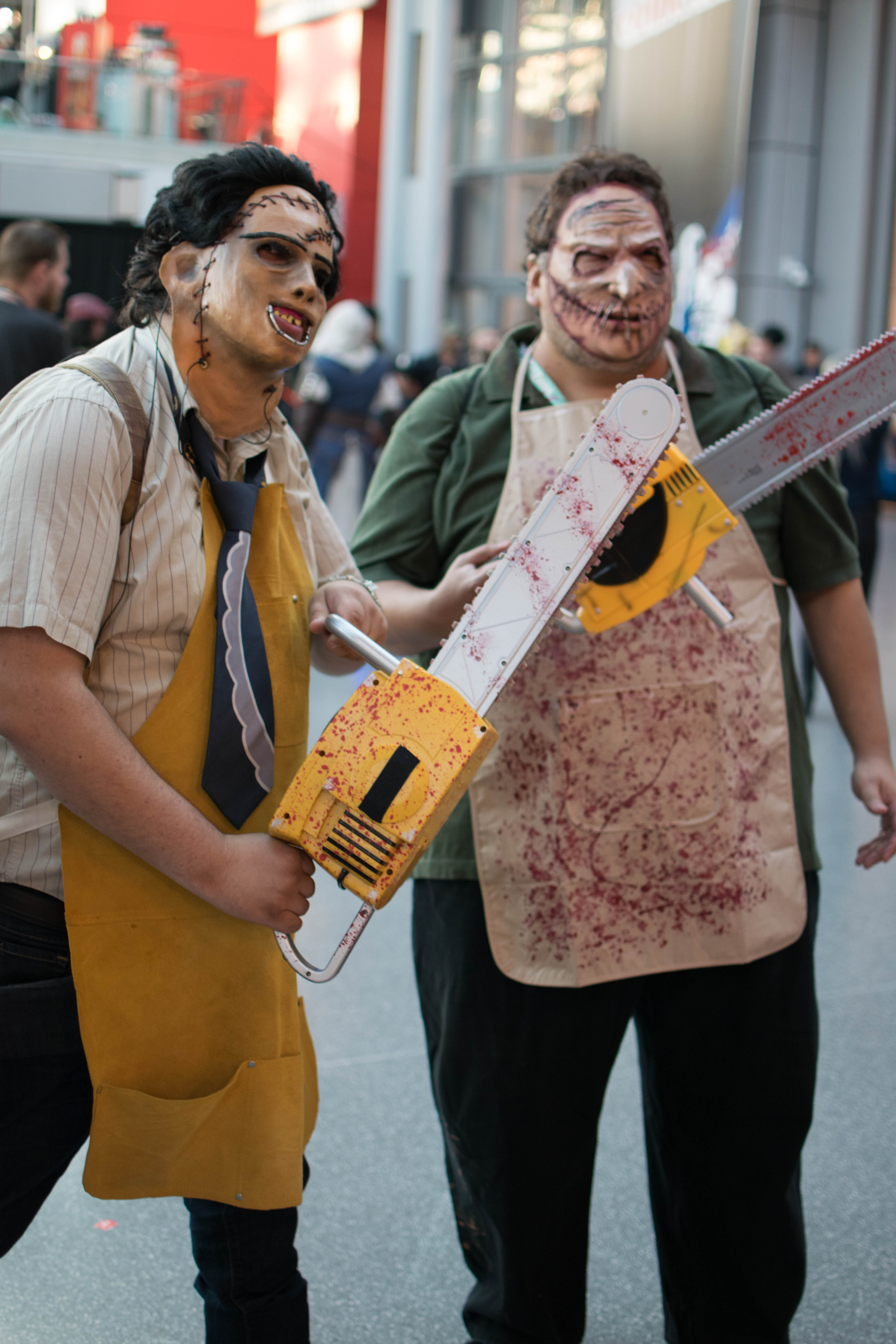 Cosplay at New York Comic Con 2016 (NYCC 2016).